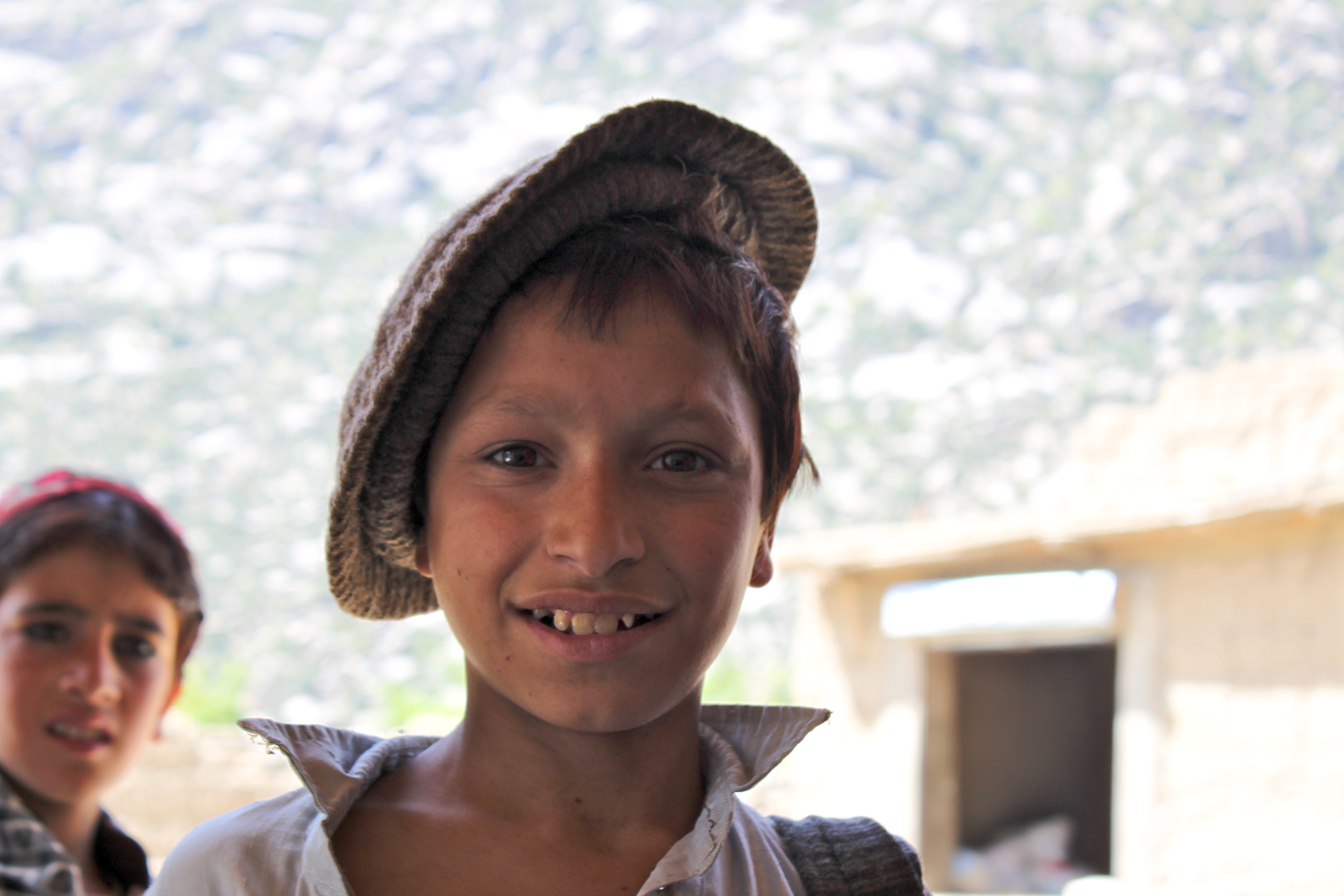 The following is the author's description of the photograph quoted directly from the photograph's Flickr page. "Sporting the distinctive wool caps, much different than the Pakol. Photos from our trip to Dari Noor "